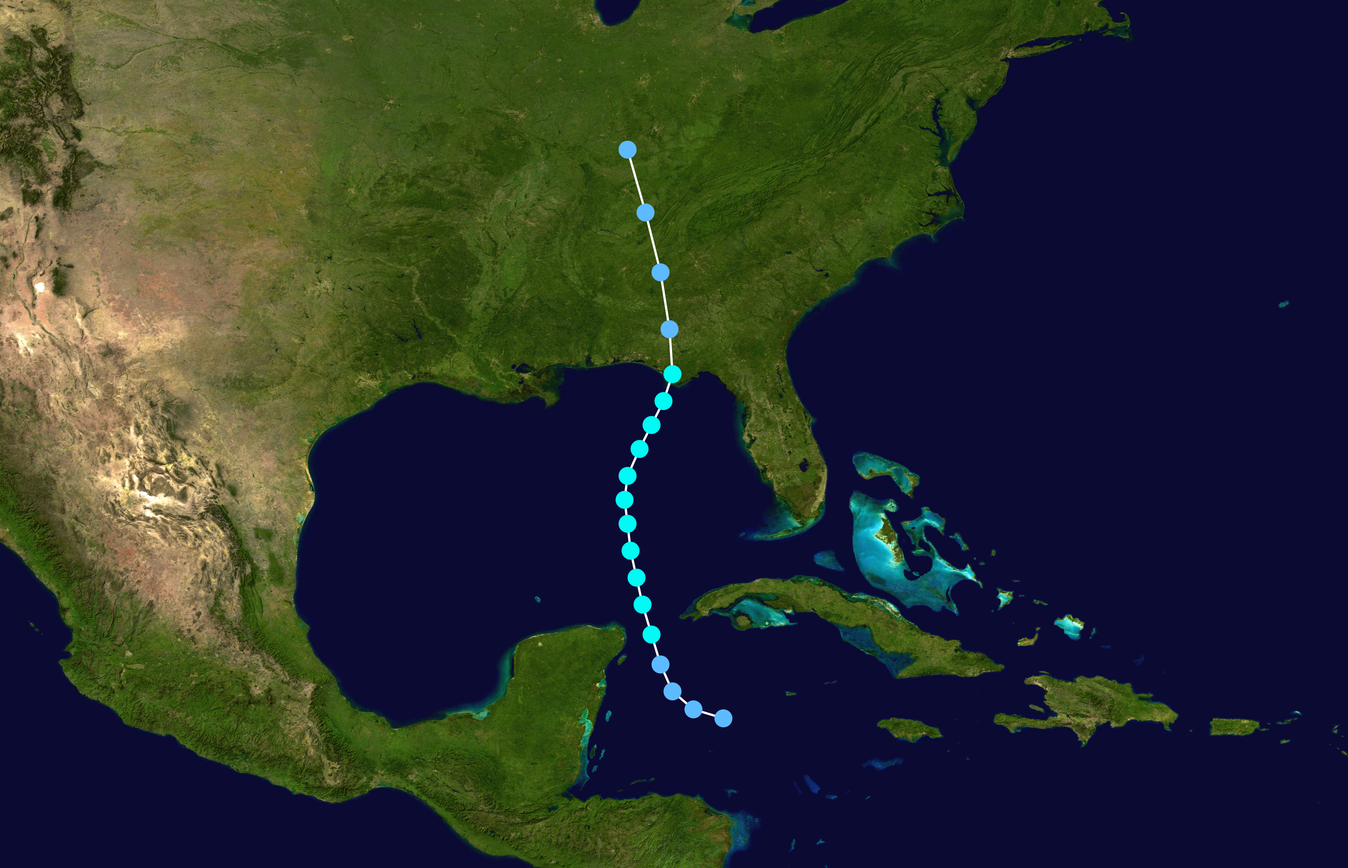 Tropical Storm Becky (1970) track. Uses the color scheme from the Saffir-Simpson Hurricane Scale.